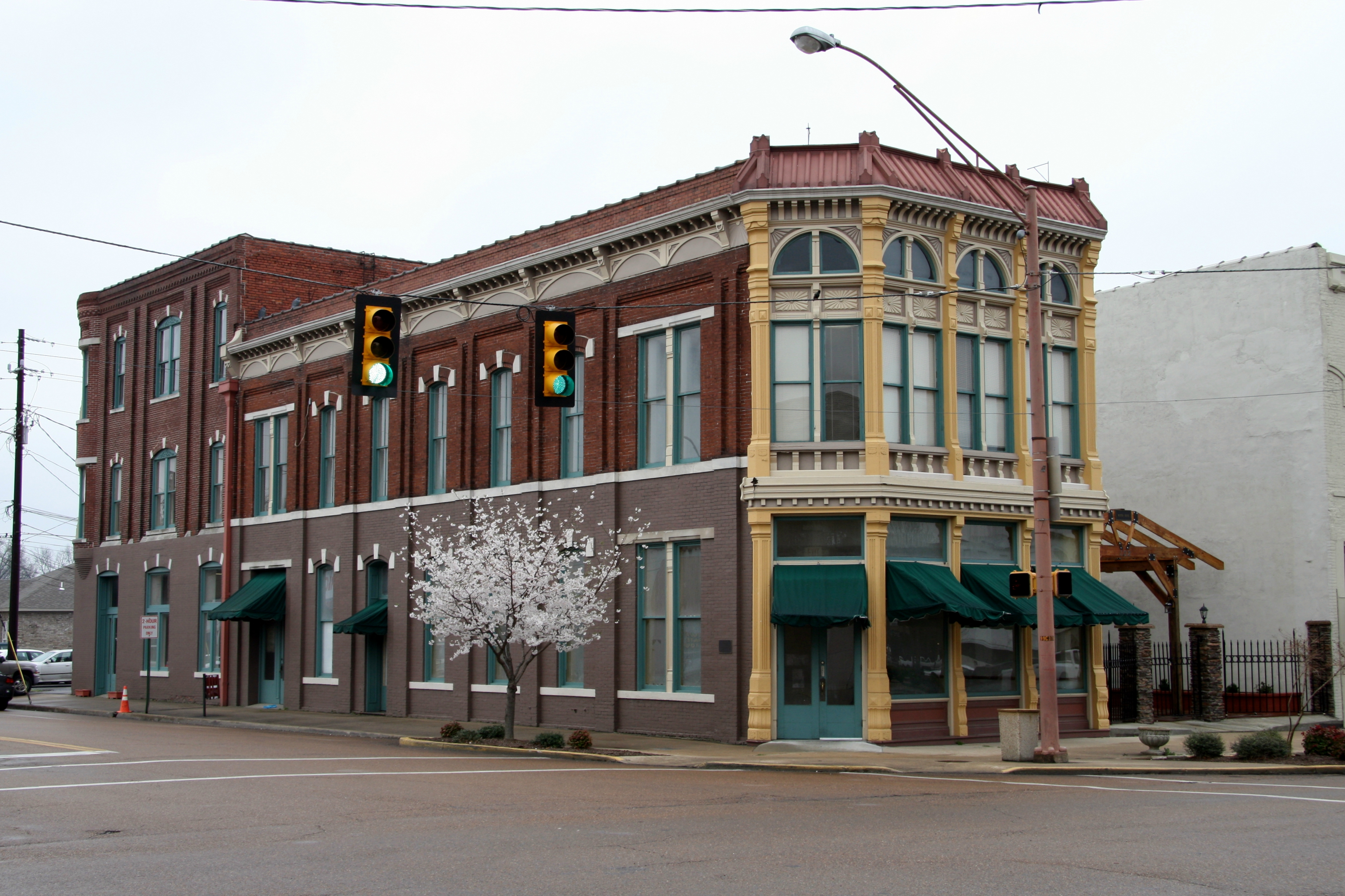 The old Bank of Dyersburg as of March 2008. It is located on the corner of Court St and Main Ave (State Highway 3). It most recently was the location of a Subway sandwich shop, but was vacant at the time.